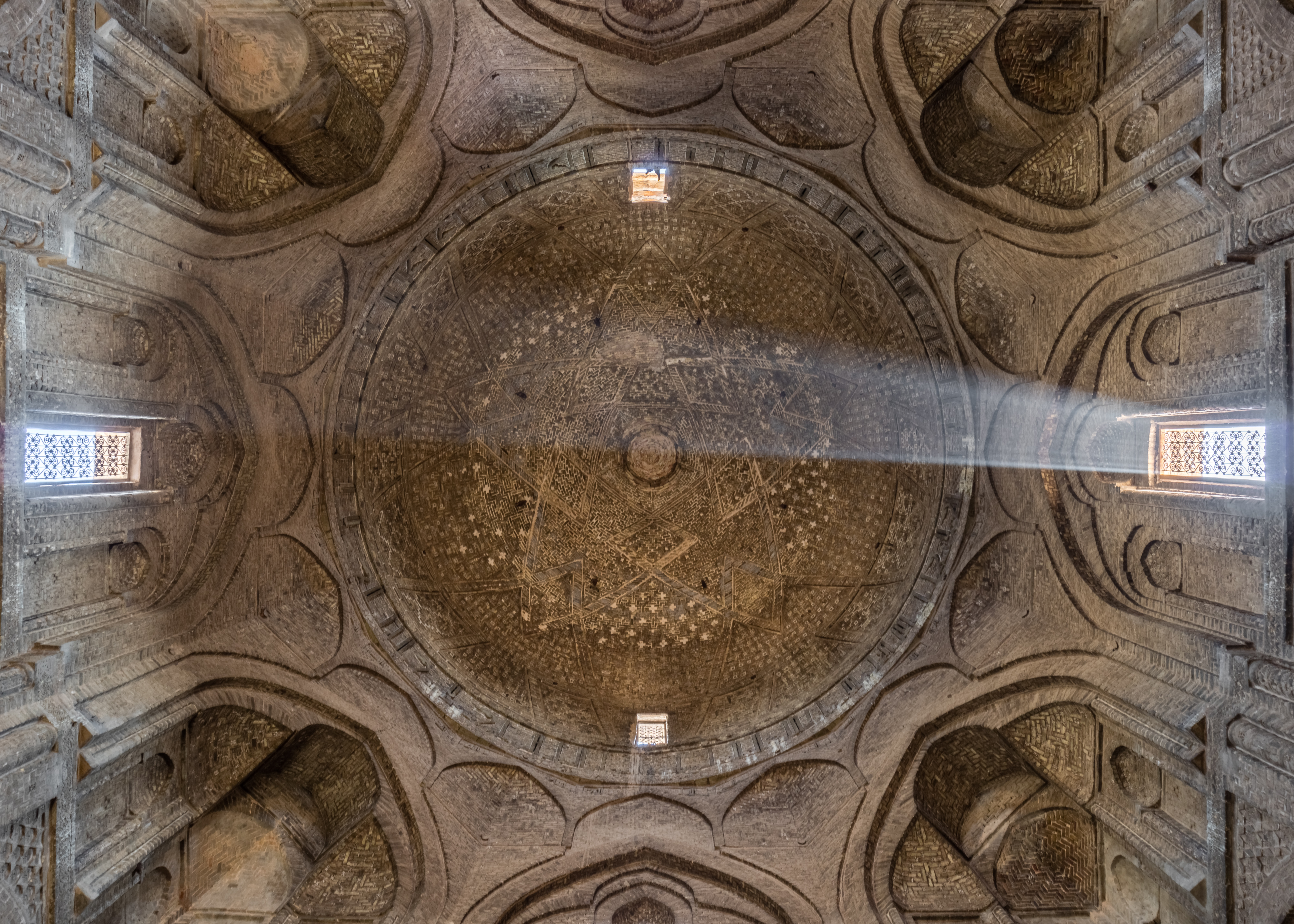 Taj al-Molk dome of Jameh Mosque of Isfahan, Isfahan, Iran